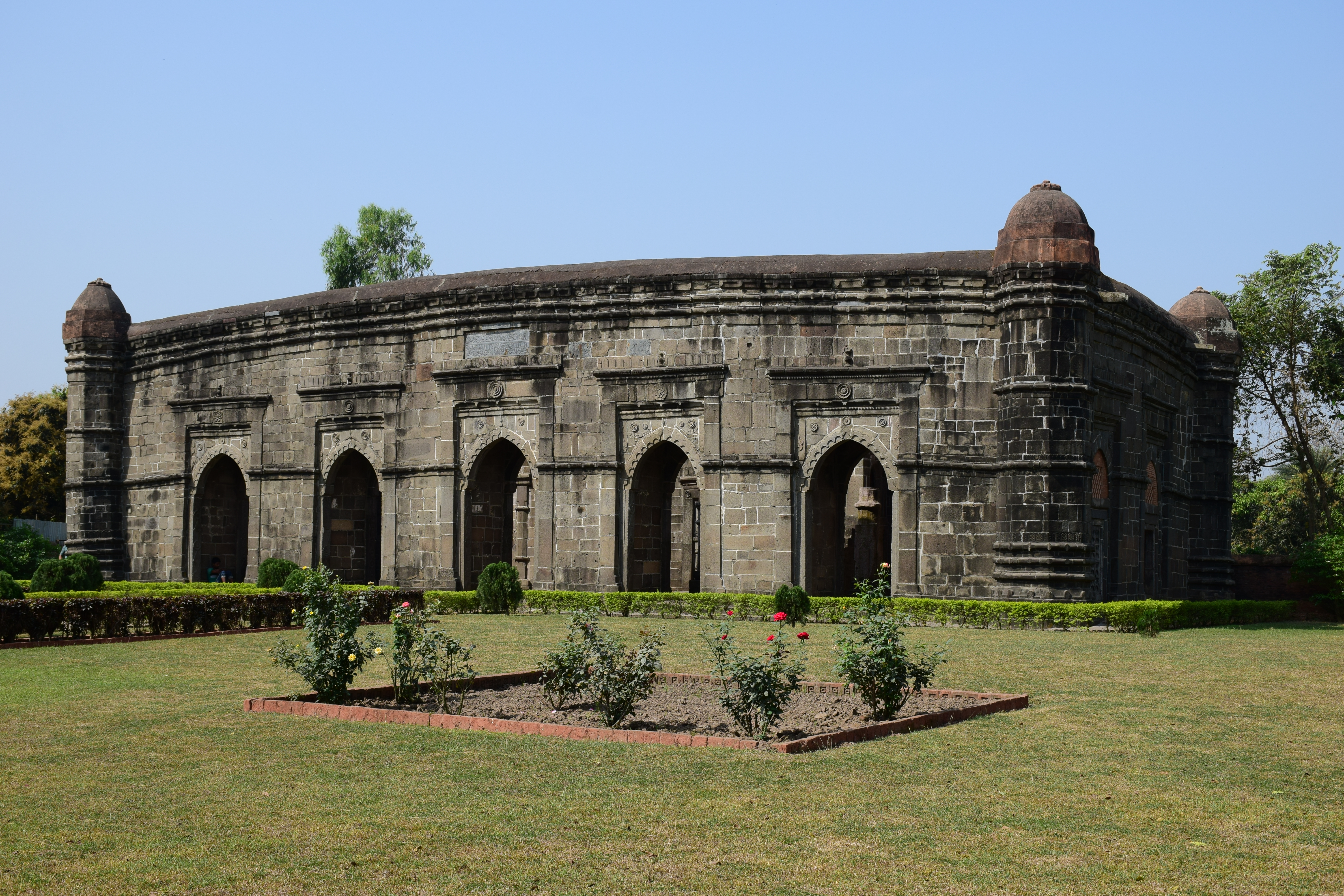 Locally known as the Chhoto Sona Masjid, Qutub Shahi Mosque, built to honour saint Nur Qutb-ul-Alam. This double-aisled mosque with ten domes and corner turrets was built by the saint's follower and descendent Makhdum Shaikh in 1582. It had glided wall surface and crowns on its turret.